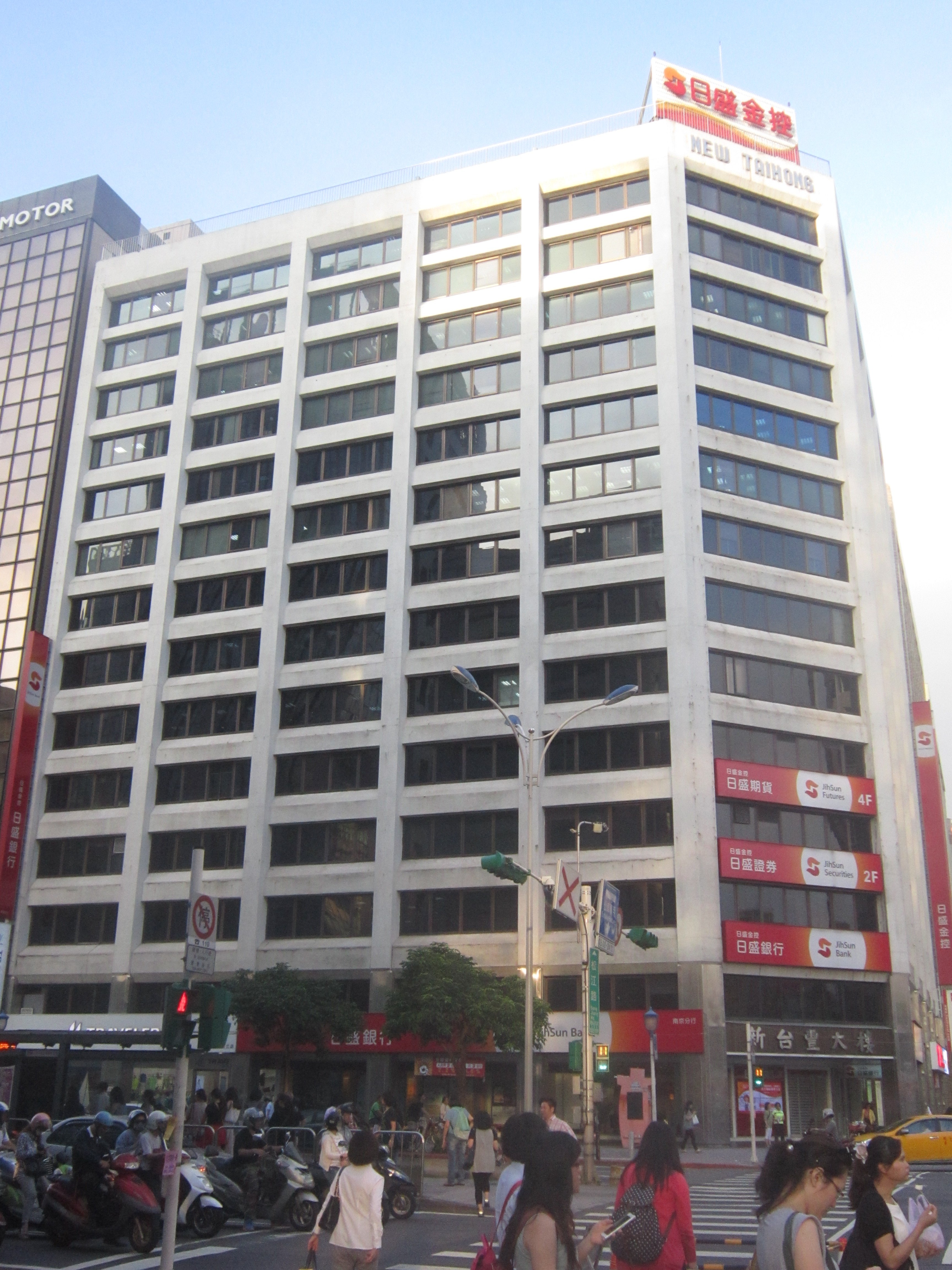 Jih Sun Financial Holding at New Taihong Building, Taipei City.